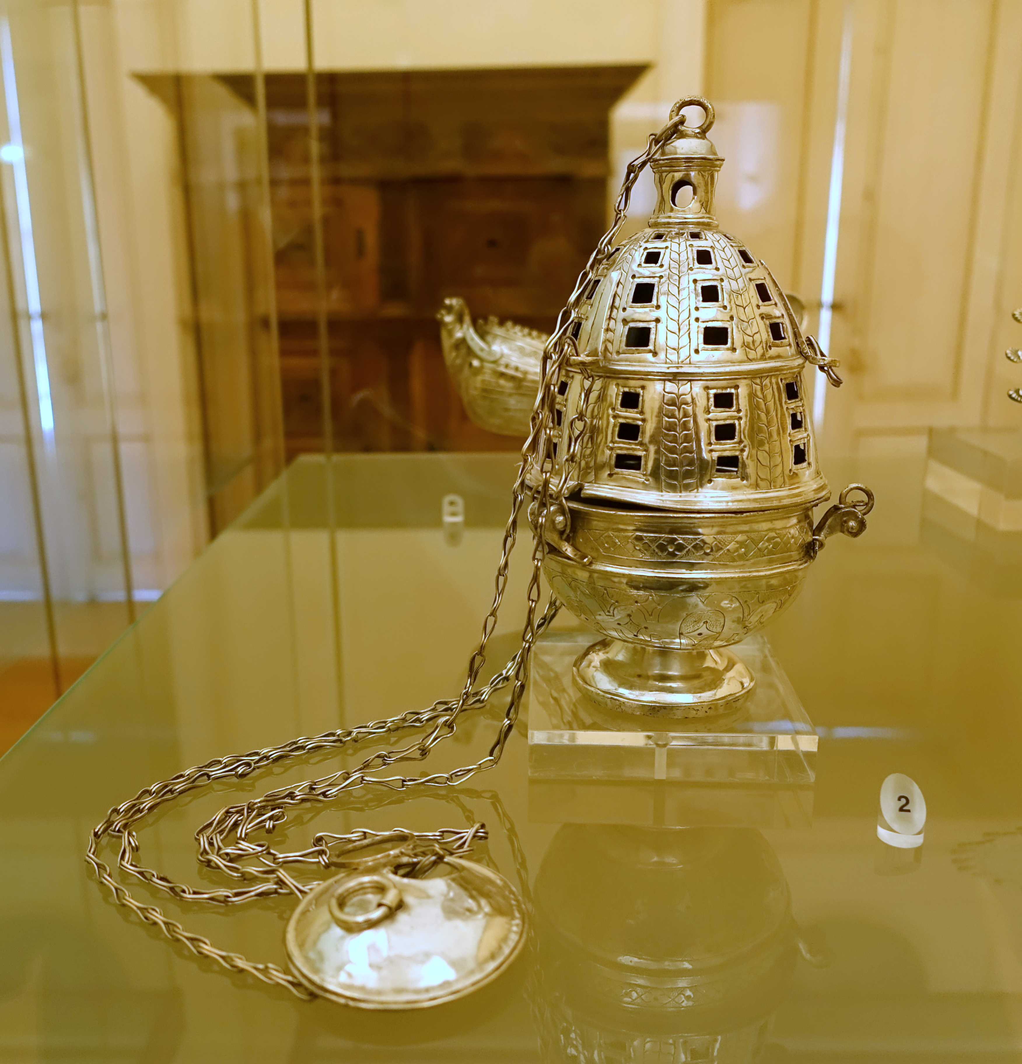 Exhibit in the Museu Nacional de Soares dos Reis - Porto, Portugal.